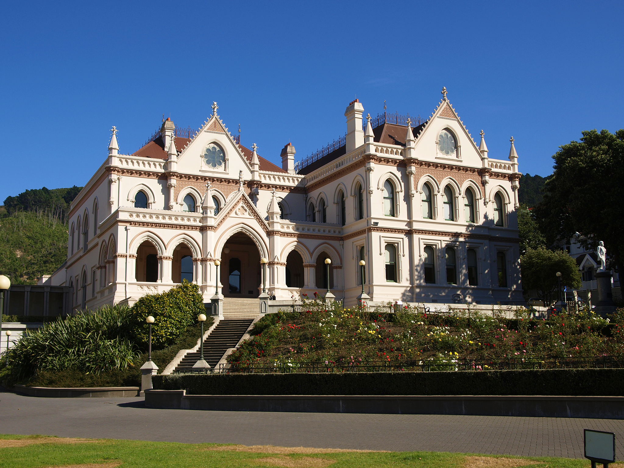 Parliamentary Library Building, Molesworth Street, Thorndon, Wellington, New Zealand (build 1899), Historic Places Trust Register number: 217